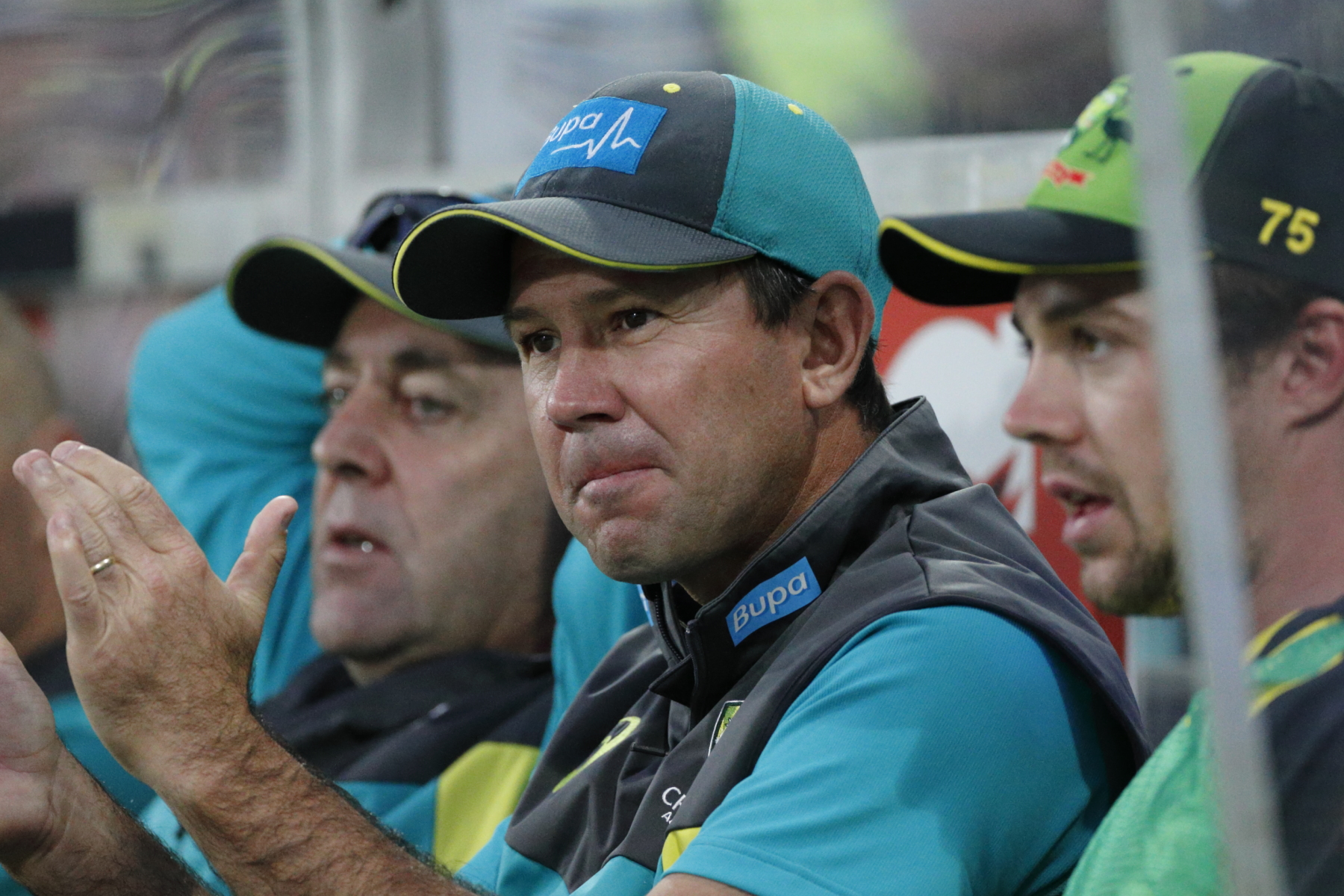 Darren Lehmann and Ricky Ponting during the 2017–18 Trans-Tasman Tri-Series